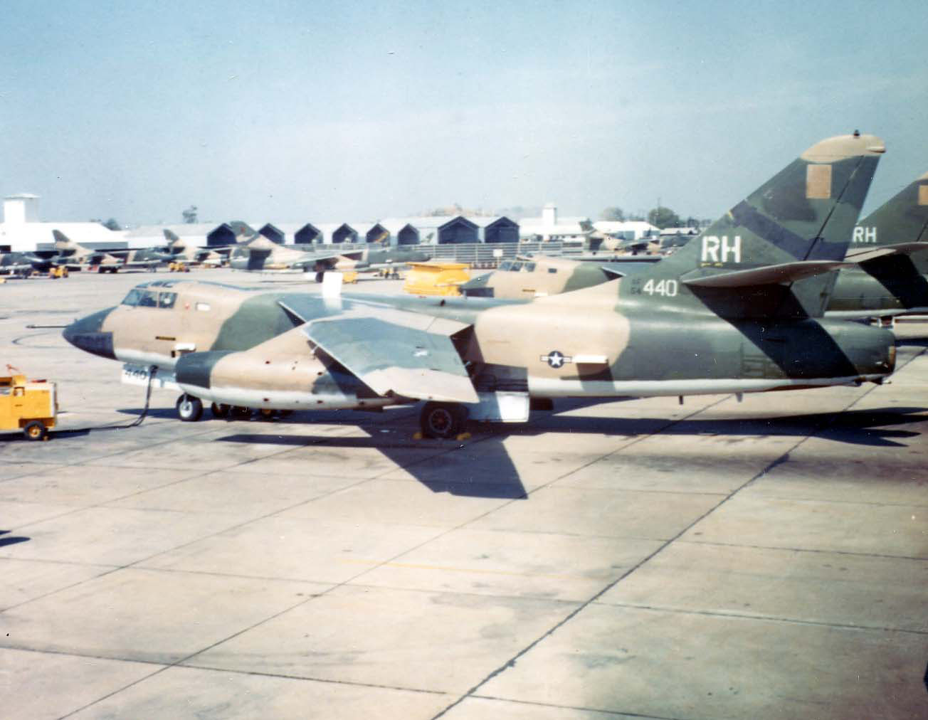 At least seven U.S. Air Force Douglas EB-66E Destroyer ECM aircraft at Takhli Royal Thai Air Force Base during the Vietnam War. In the foreground is EB-66E, USAF s/n 54-440, assigned to the 41st Tactical Electronic Warfare Squadron, 355th Tactical Fighter Wing.